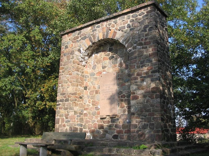 Hagelberg, new monument, built in 1955. The village Hagelberg is a part of the town Belzig in the district Potsdam Mittelmark, state Brandenburg, Germany. The village appertains to the nature park Naturpark Hoher Fläming. The eponymous Hagelberg (hill) is with a height of total 200 meters the highest elevation in the Fläming. There are two monuments commemorating to the prussian victory in the „Battle nearby Hagelberg“ in 1813 against Napoleon.